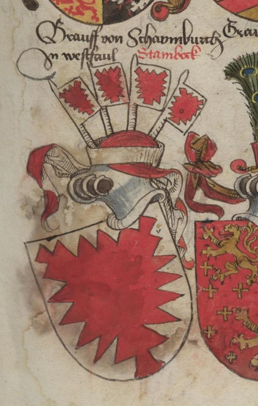 Coat of arms of Bruno von Schauenburg in "Wappenbuch Grünenberg" by Conrad Grünenberg from 1483